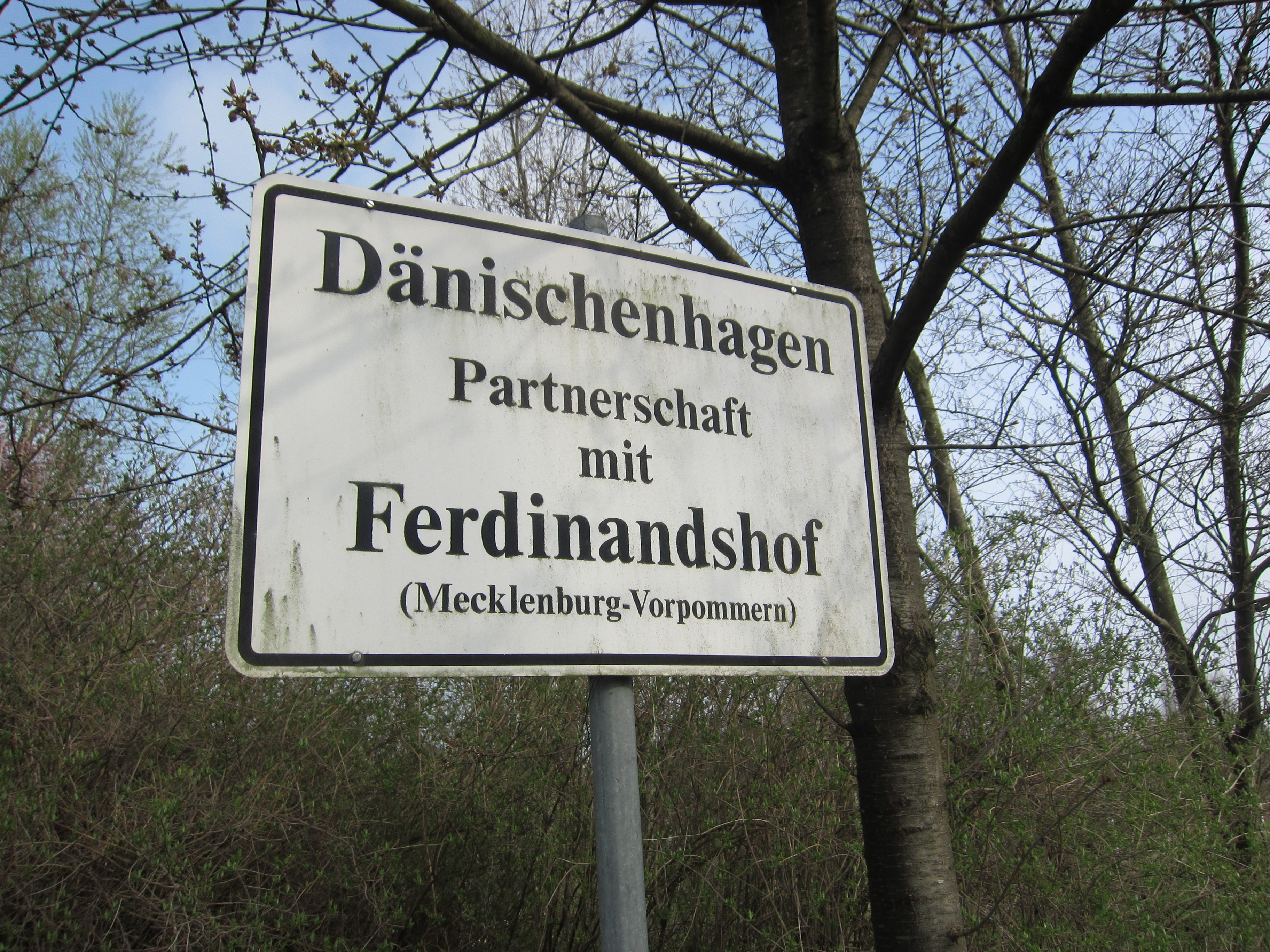 Town twinning sign in Dänischenhagen